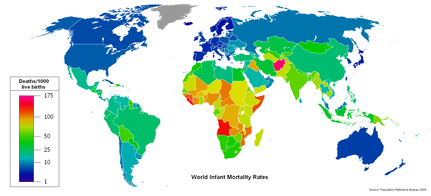 World infant mortality rates in 2008. source data